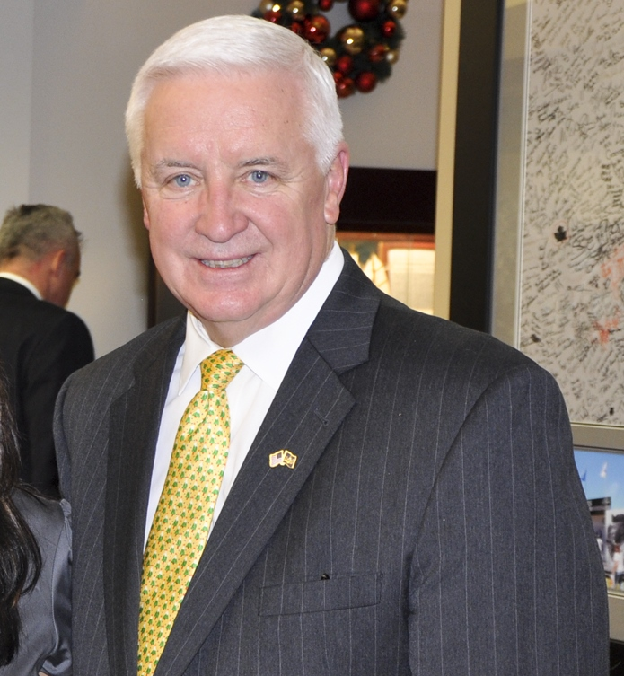 Cropped photo of Governor Corbett